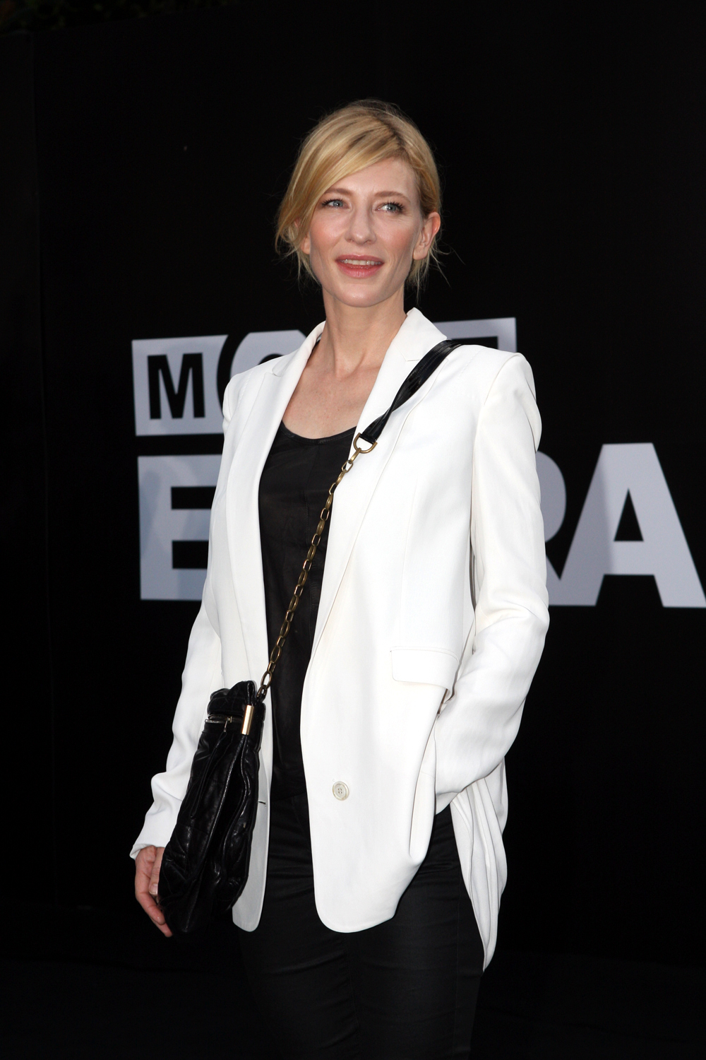 Cate Blanchett at the Tropfest Opens 2012 in Sydney, Australia